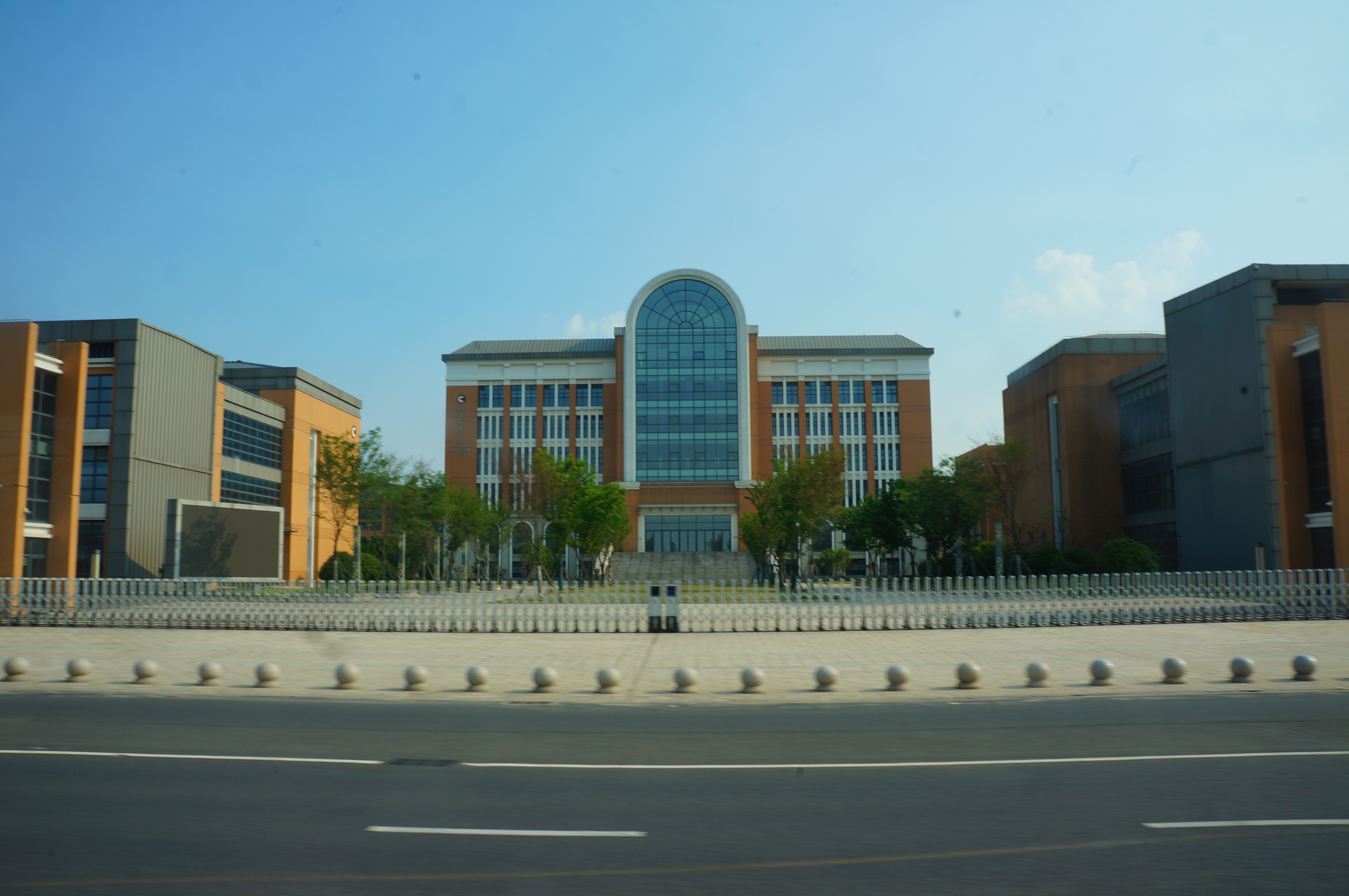 201706 Changzhou Foreign Languages School. Do you remember the pollution incident of CFS last year?